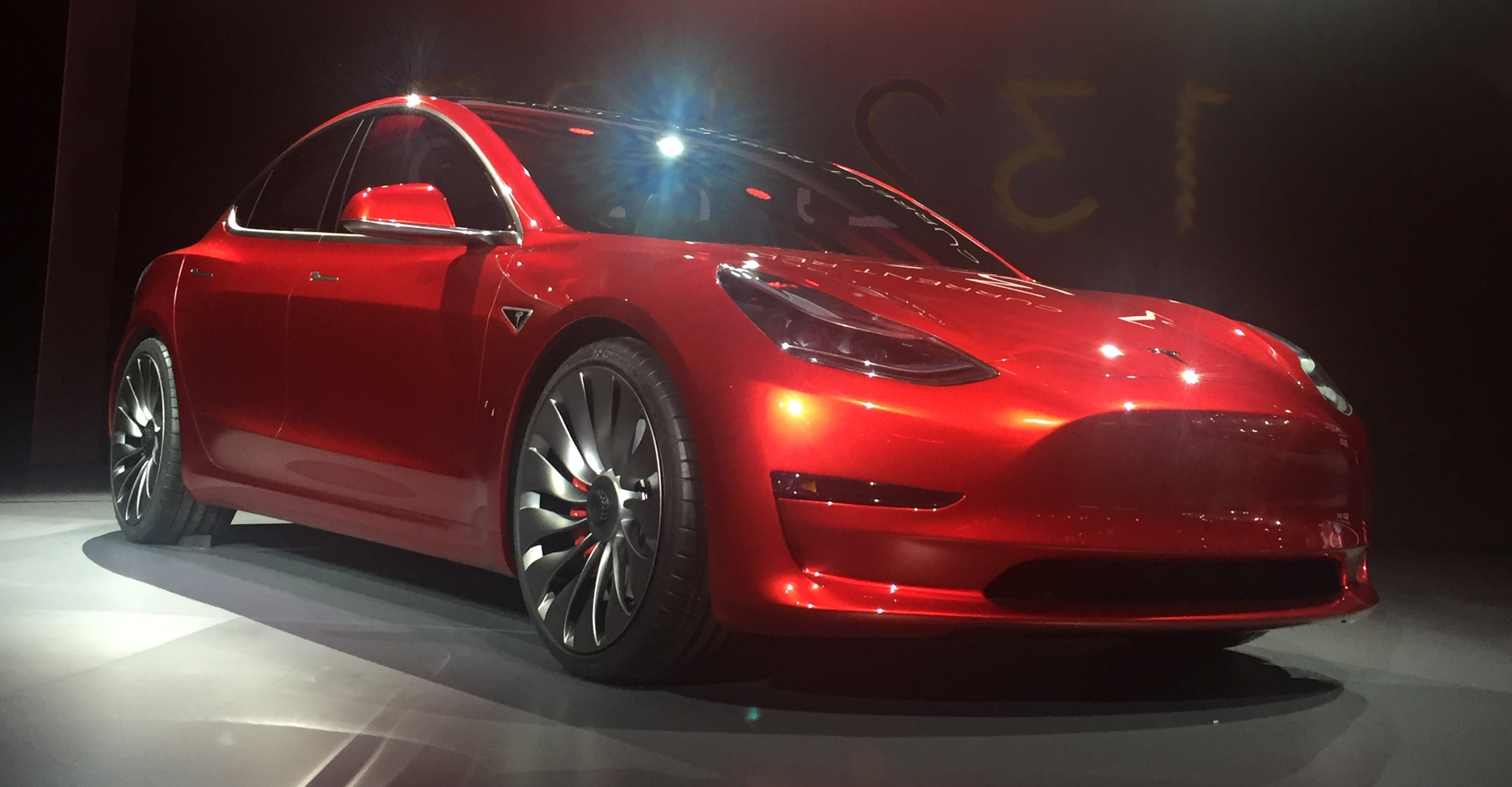 Red Tesla Model 3 at the March 31, 2016, unveiling event, Hawthorne, California.